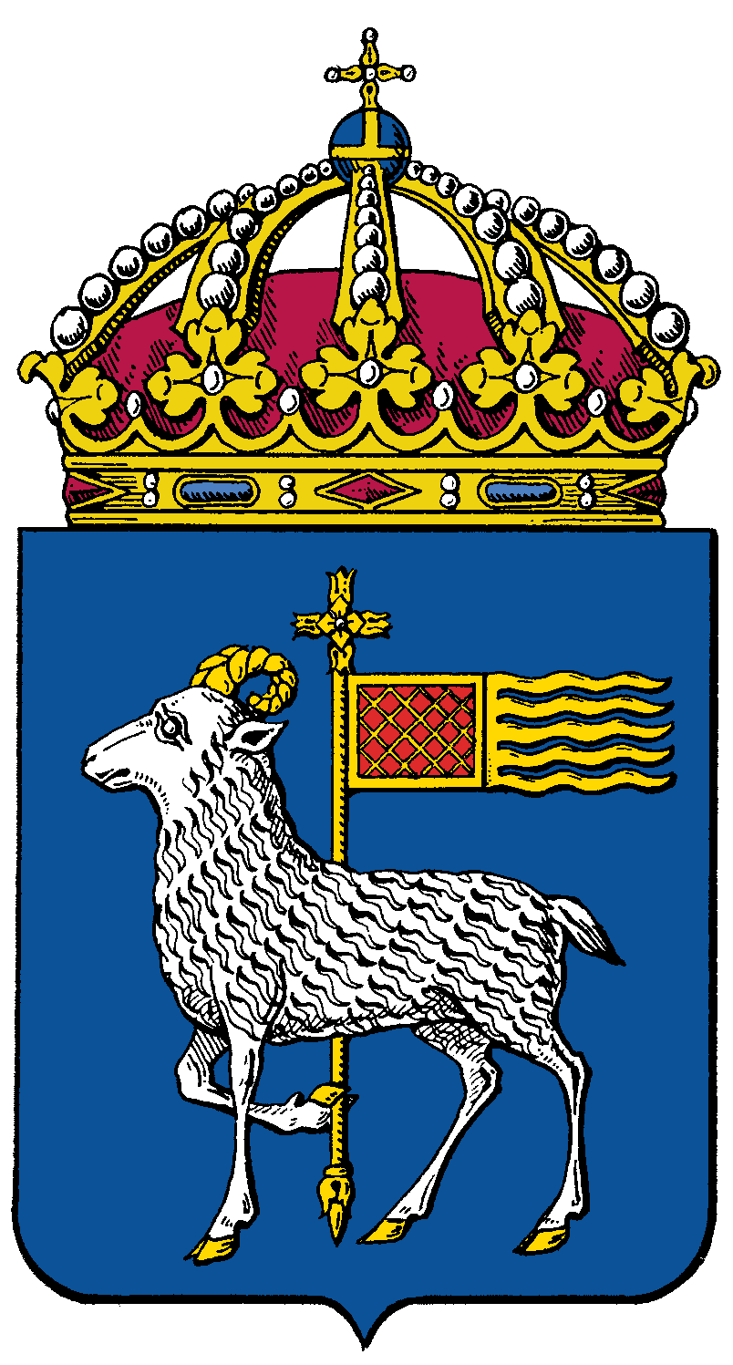 Coat of arms of the province of Gotland